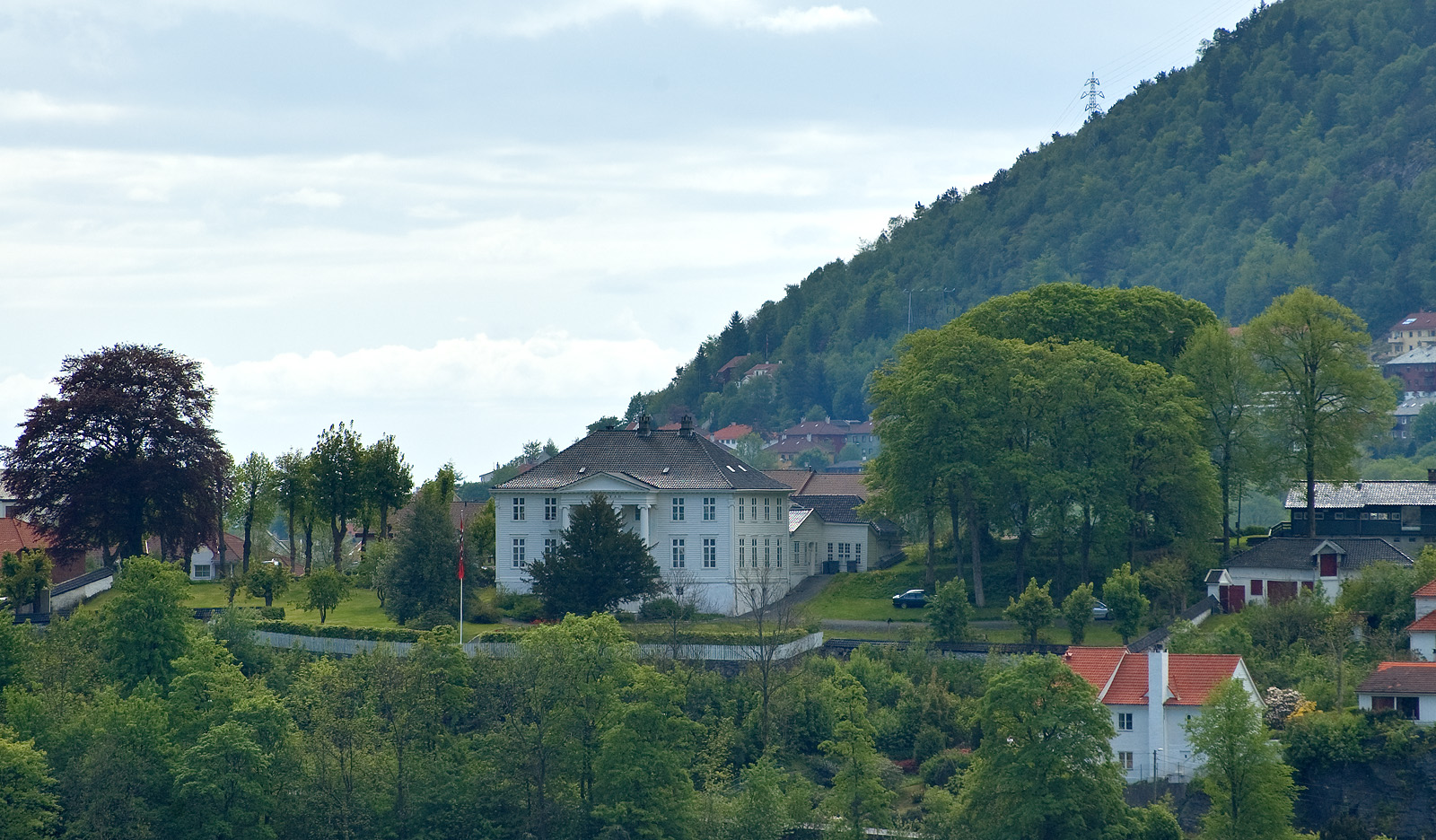 Kronstad Hovedgård, a manor house in Bergen, Norway.